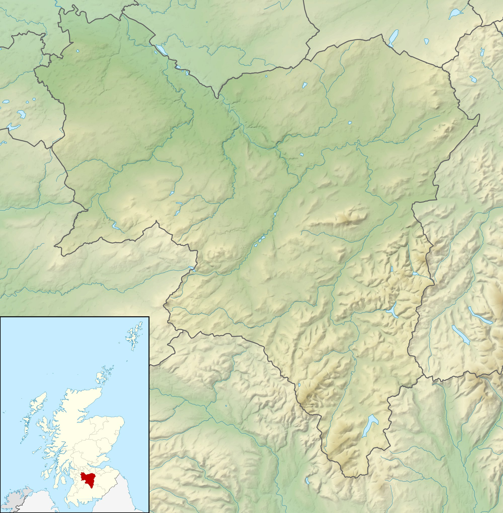 Relief map of South Lanarkshire, UK. Equirectangular map projection on WGS 84 datum, with N/S stretched 170% Geographic limits: West: 4.35W East: 3.35W North: 55.85N South: 55.25N